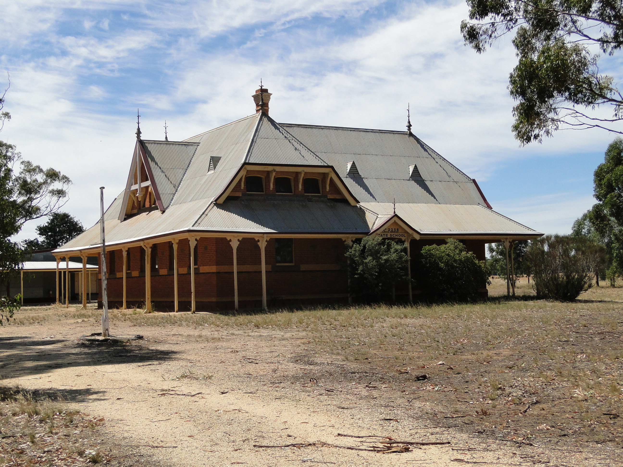 The old primary school at Lower Homebush, Victoria, now used a school camp by Mount Waverley Secondary College